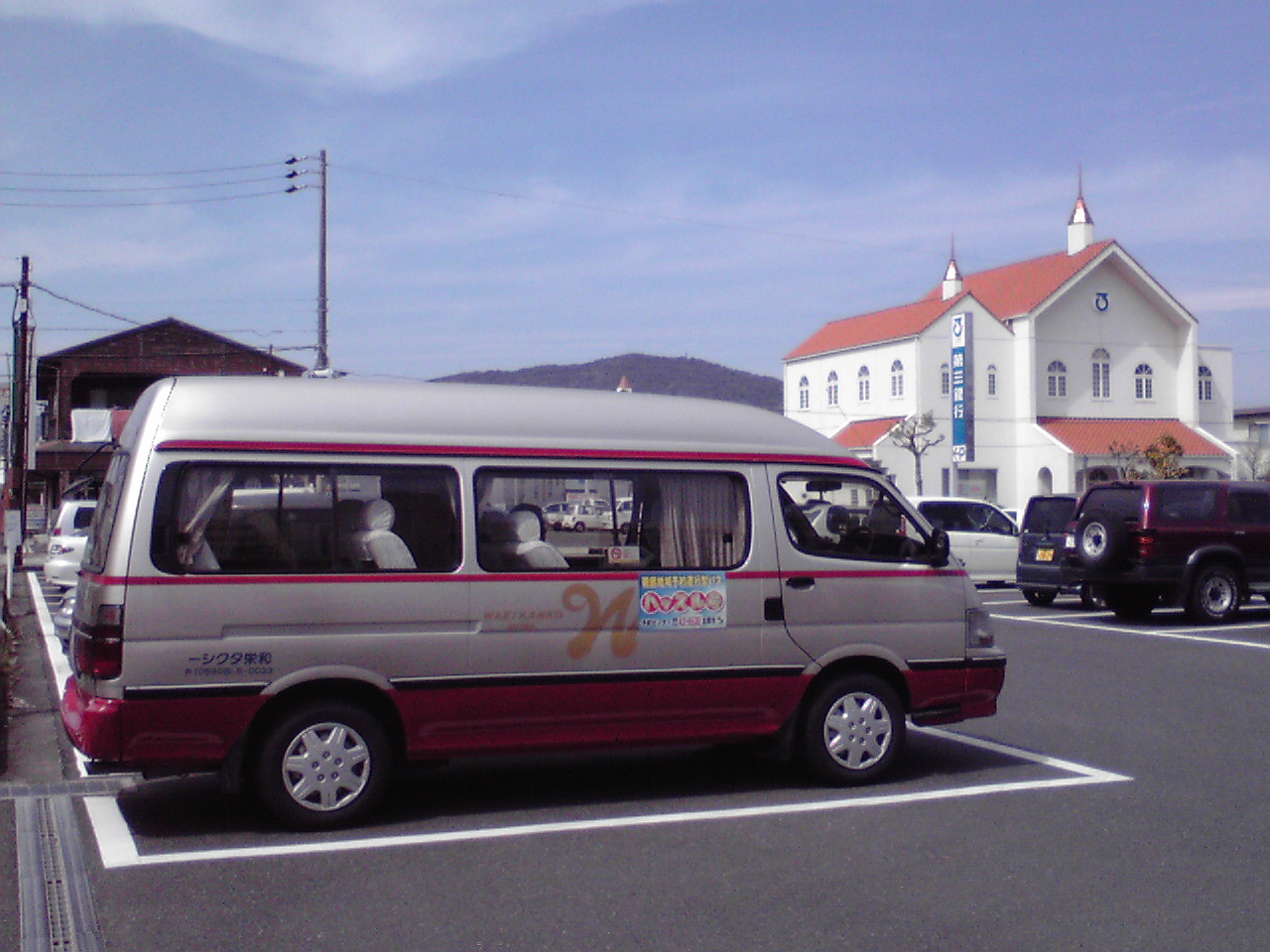 This is a community bus named "Isobe Area Reservated-Operation System Bus Hustle".You can see it in Isobe,Shima,Mie,Japan.